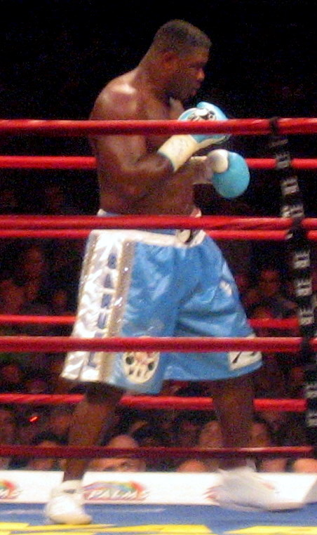 Samuel Peter (boxing vs. Jameel McCline at the Madison Square Garden on October 6, 2007)